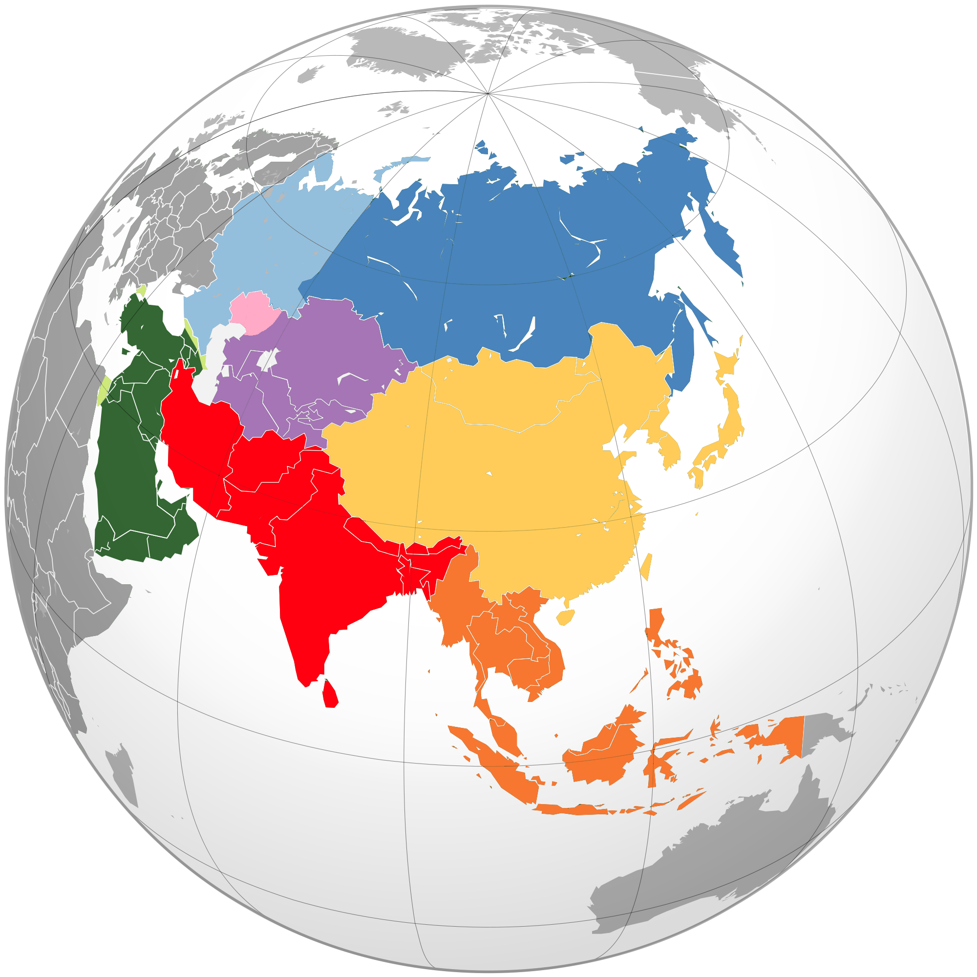 Map: Asia (location), subregions as delineated by United Nations geographic classification scheme, except *: Northern Asia* Russia in Eastern Europe Central Asia territories geographically, wholly or partially, in Eastern Europe Western Asia territories geographically, wholly or partially, in Eastern Europe, Southern Europe, or Northern Africa Southern Asia Eastern Asia Southeastern Asia territories geographically, wholly or partially, in Melanesia (Oceania)